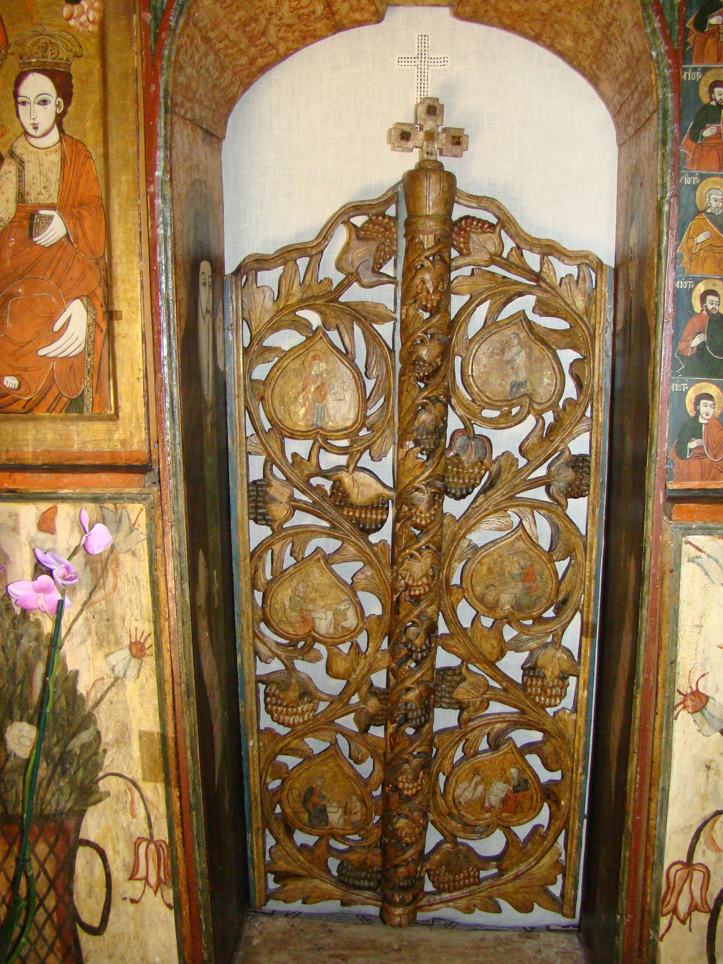 Wooden church in Cormaia monastery, Bistrița-Năsăud county, Romania